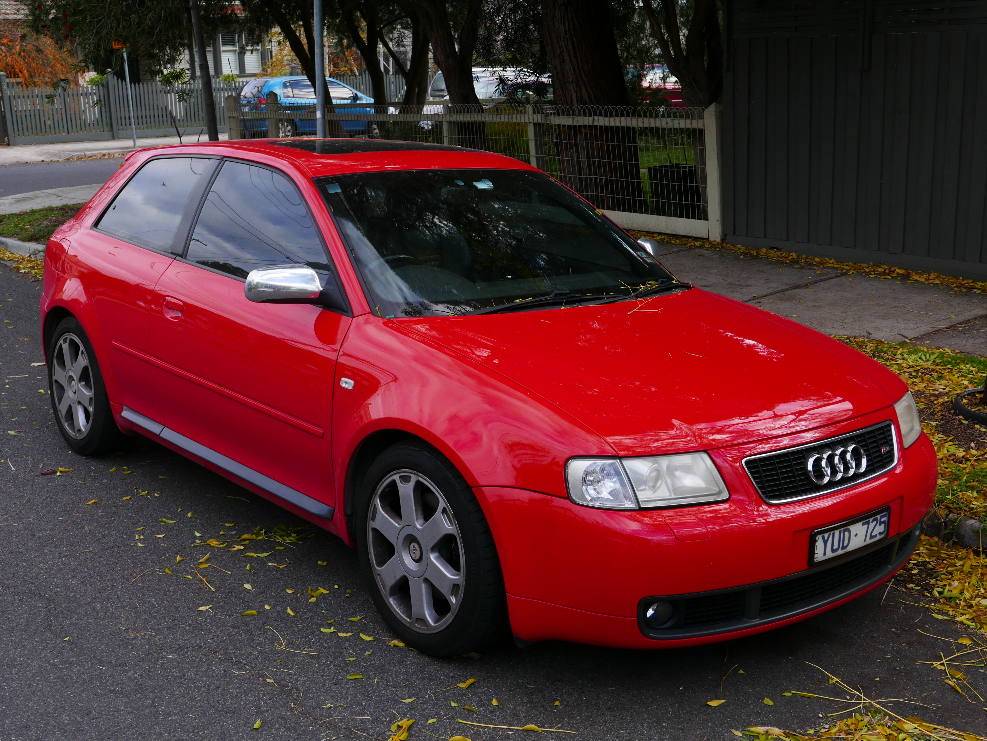 2000 Audi S3 (8L) quattro 3-door hatchback. Photographed in Northcote, Victoria, Australia. Vehicle registration enquiry resultsJurisdictionVictoriaRegistrationYUD725Chassis codeWAUZZZ8LZYA140991Engine codeAPY013810Compliance date2000-08Year of manufacture2000